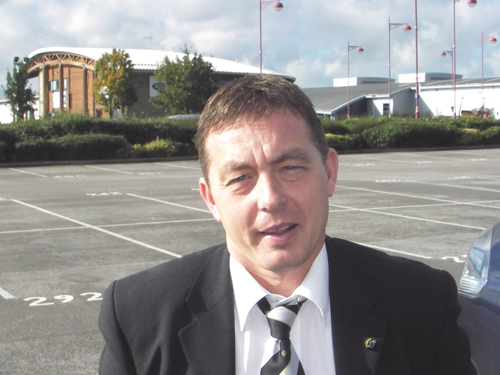 Billy Davies, former scottish footballer.